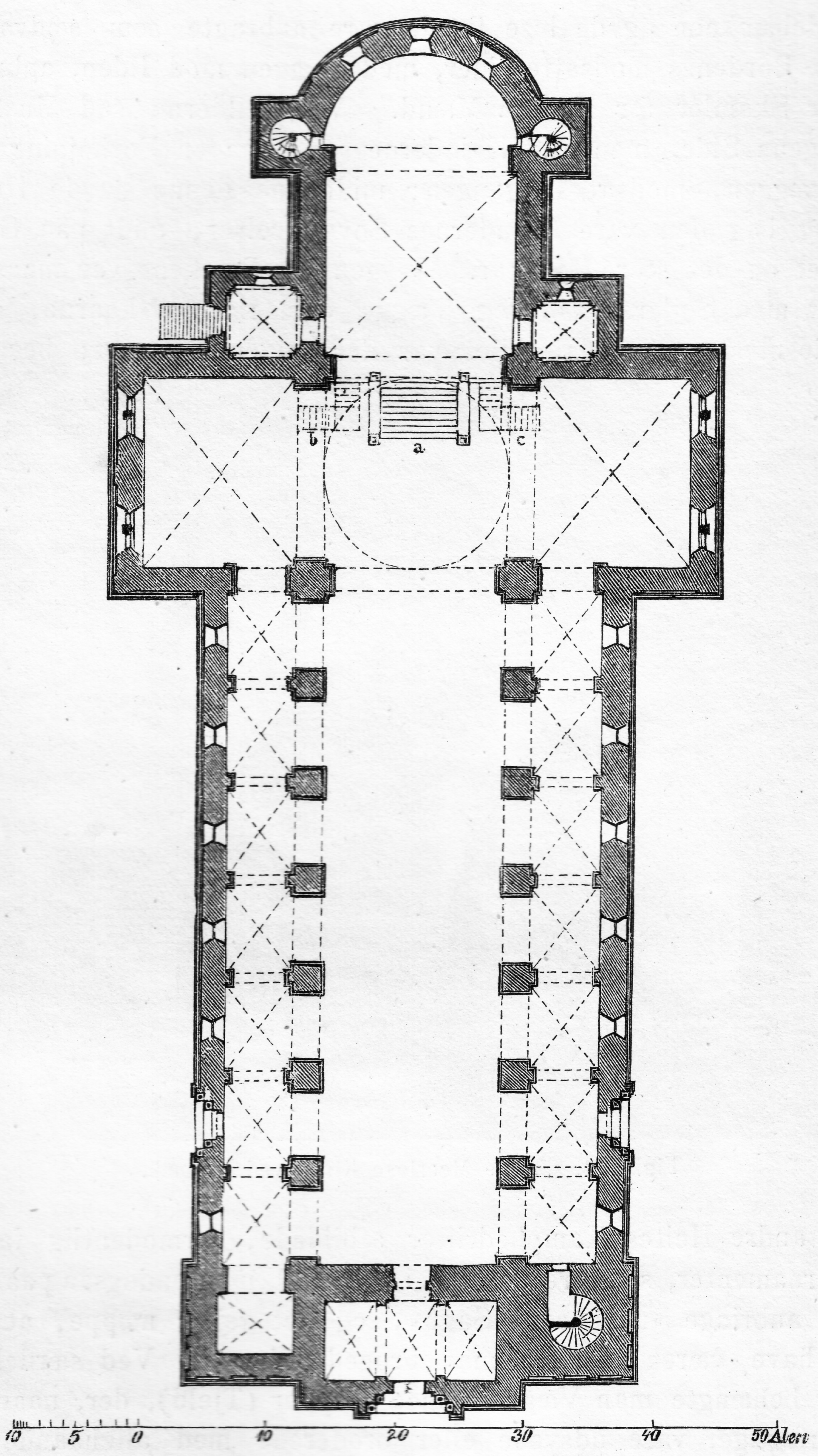 "Opfindelsernes Bog" (Book of inventions) 1877 by André Lütken, Ill. 295. Viborg domkirke.